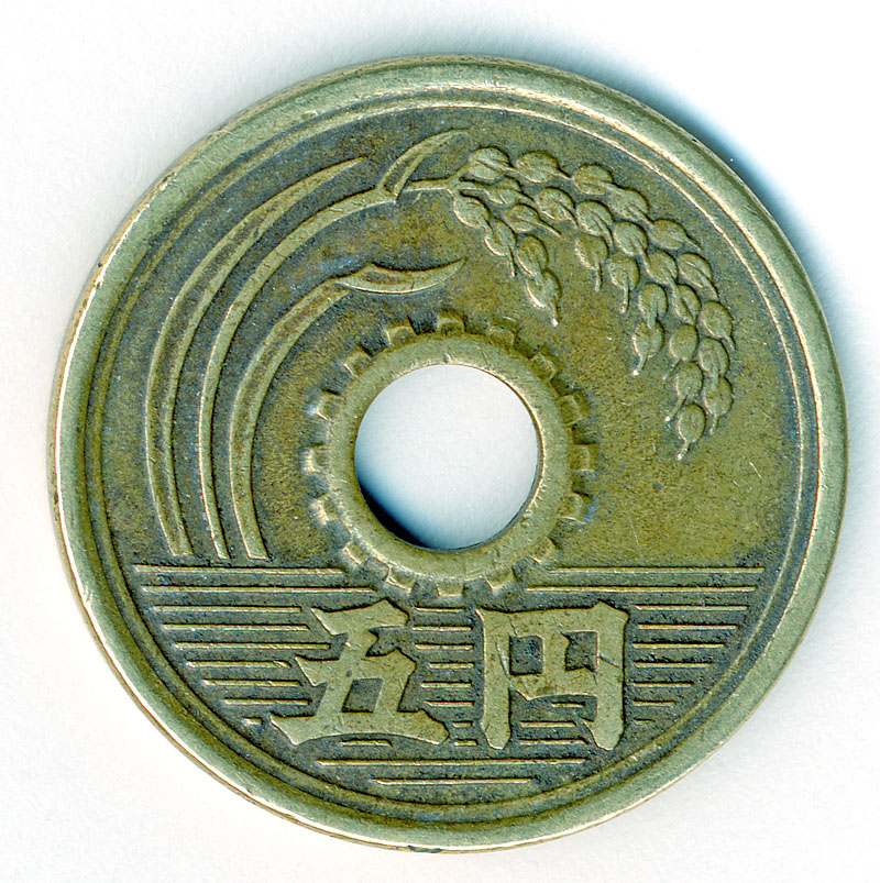 Japan 5 yen coin